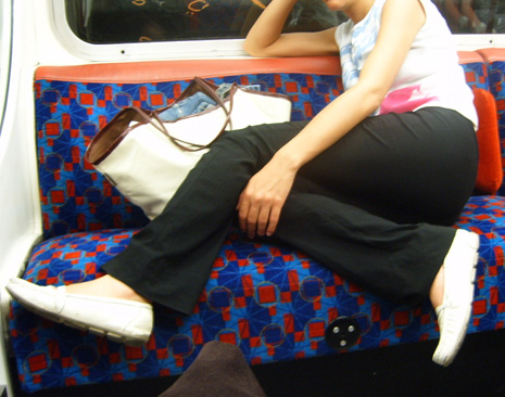 Photograph of woman taking up additional seat with her bag and legs. Original Flickr description "Tired woman taking up several seats on the London Underground. From my daily London Underground Blog"